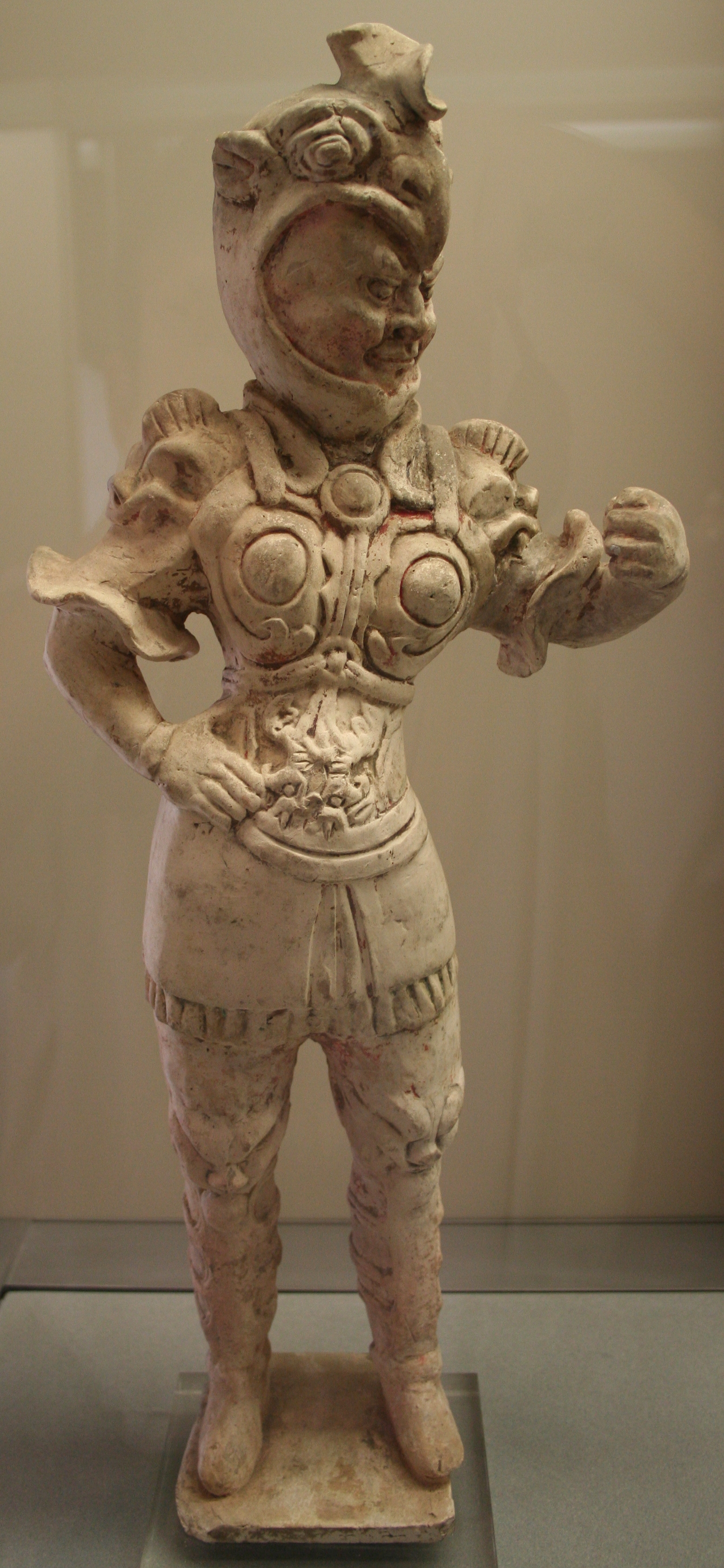 Tomb Guard (Wushi yong). Terra Cotta. Tang Dynasty (618 – 907). 7th – Early 8th Century. Cernuschi Museum, Paris, France.